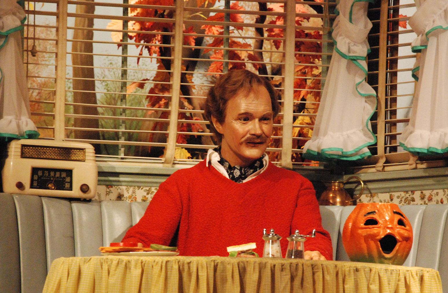 Walt Disney World - Carousel of Progress - 1940